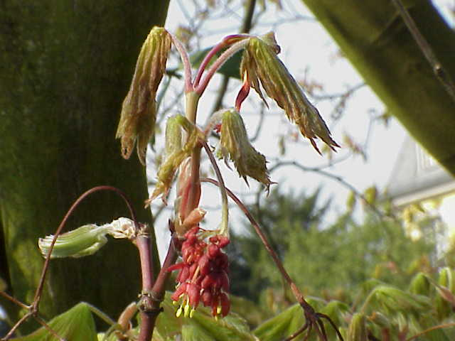 Species: Acer japonicum Family: Aceraceae Image No. 2